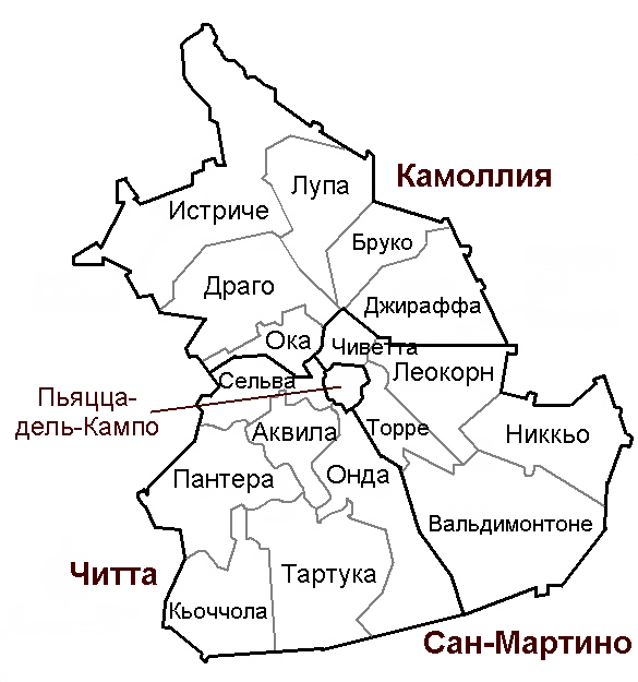 Location map of the Contrade and of the Terzi of Siena, with respective names.